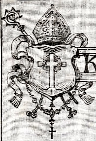 Klosterwappen Limburg, gezeichnet von Wilhelm Manchot (1844-1912)